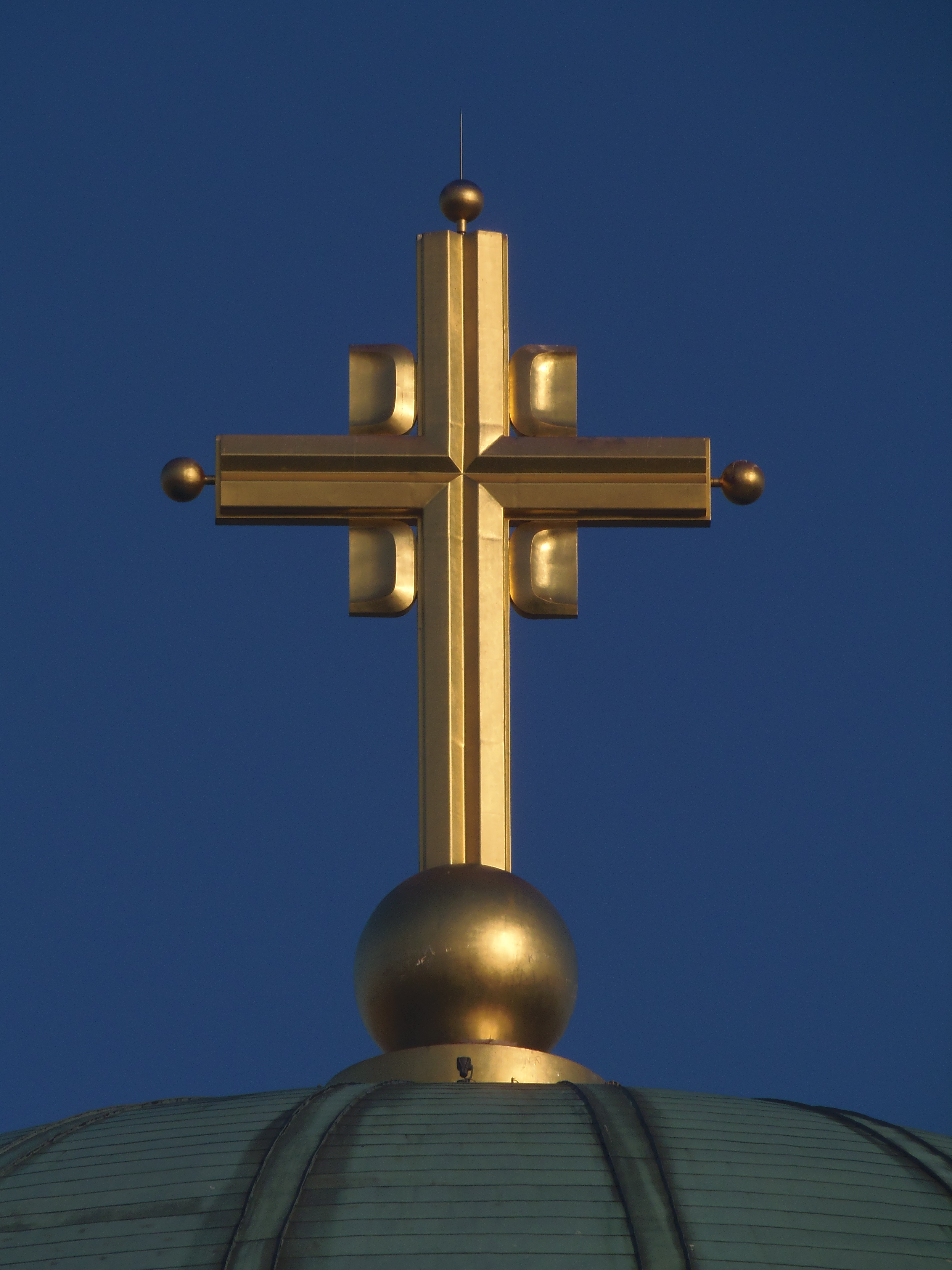 Gilt cross surmounting the main dome of the Saint Sava Temple. Belgrade, Serbia.